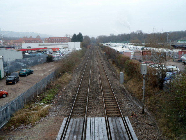 Site of former Lower Pontnewydd railway station, Cwmbran Viewed from Station Road bridge looking north. A 1940s map shows that Lower Pontnewydd railway station was located here, immediately north of the bridge. Passenger services at Lower Pontnewydd railway station ceased in 1958.